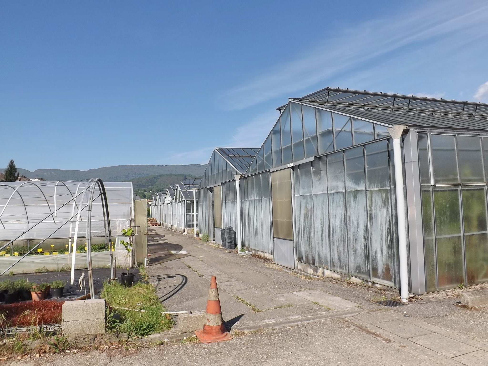 Sight of greenhouses on the public horticultural production area of Chambéry, in Savoie, France.